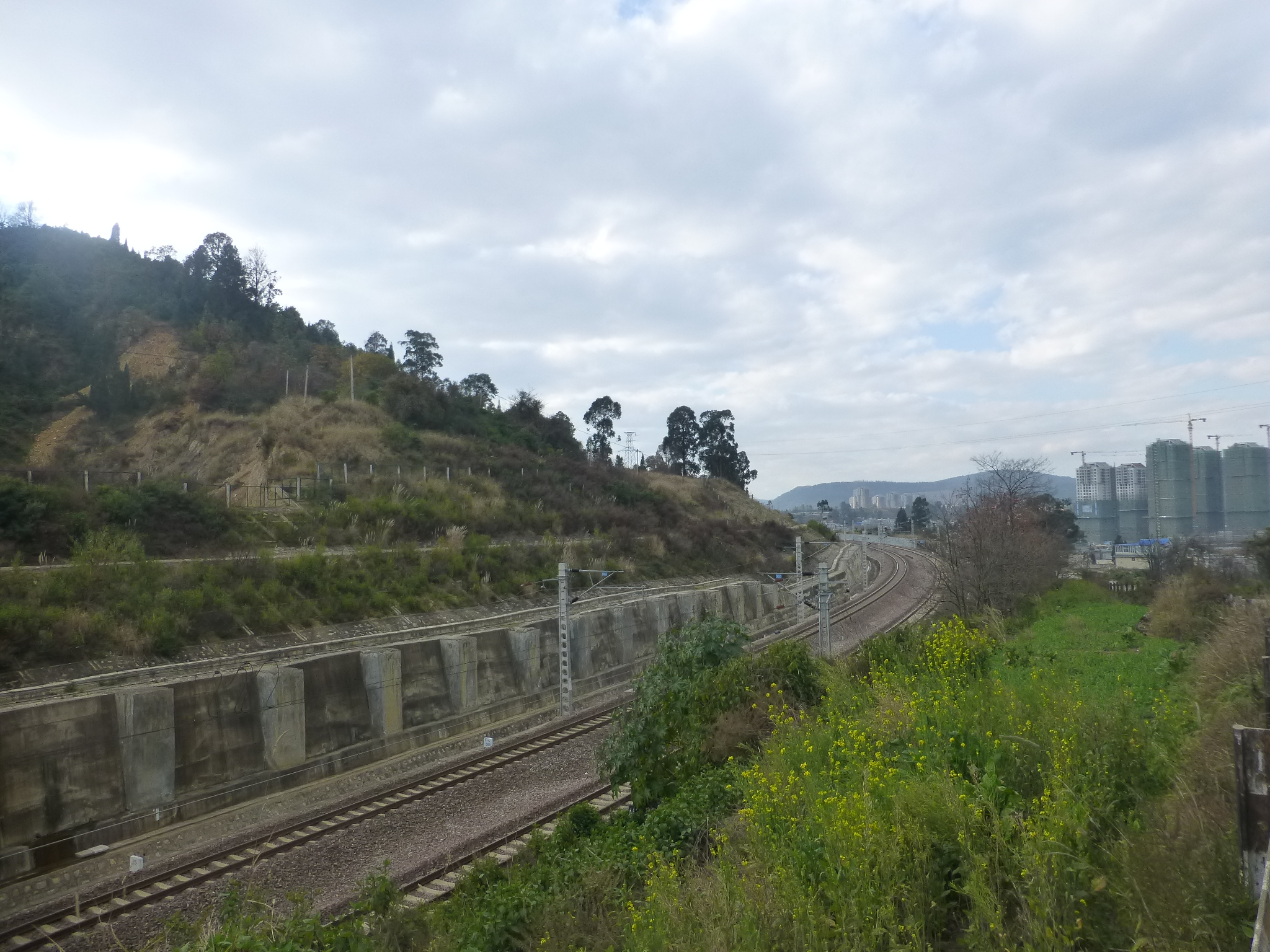 The Kunming-Yuxi Railway, between Zhongtan Station and Zhongyicun Station, seen from Yunnan Hwy 215, in Haikou Subdistrict, Xishan District, Kunming